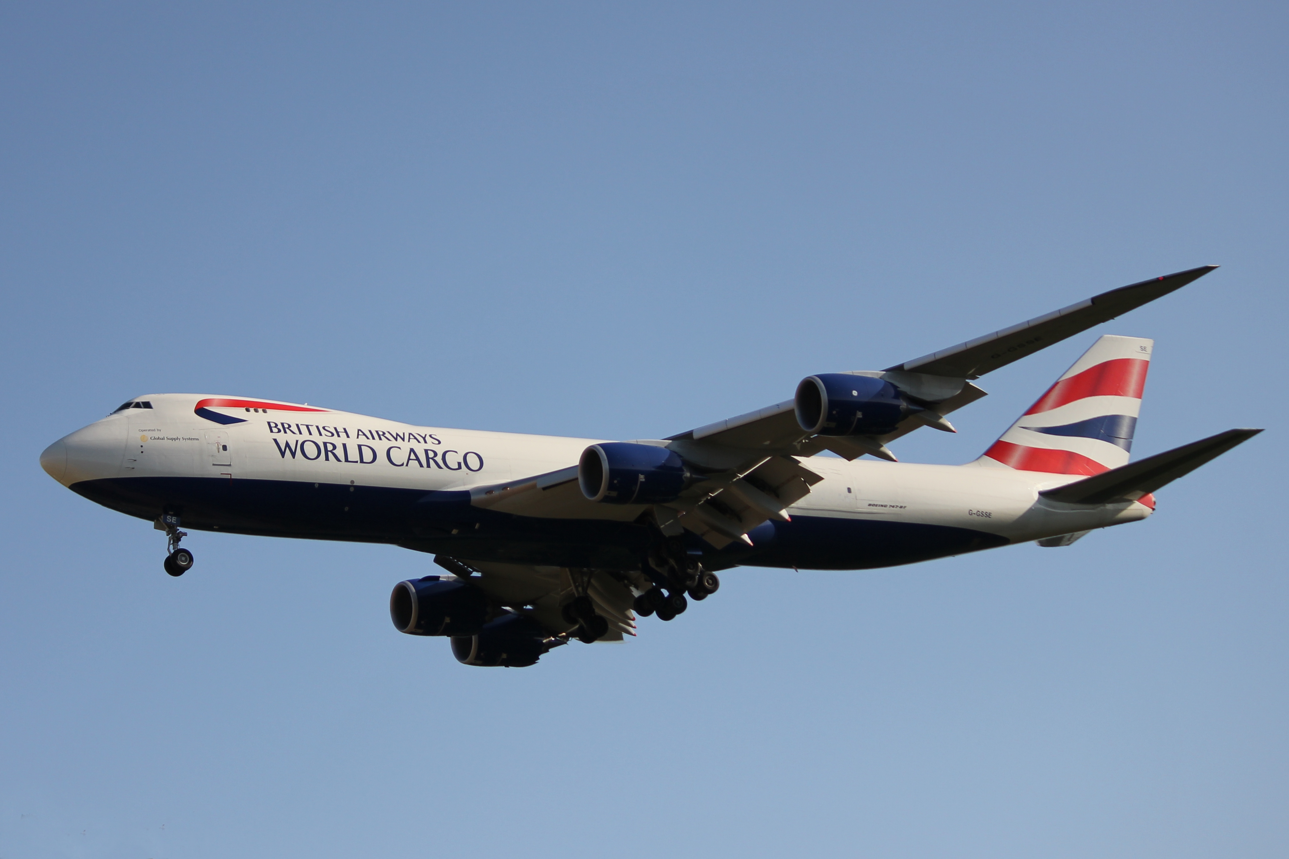 British Airways World Cargo 747-8F landing at Frankfurt intl. Airport